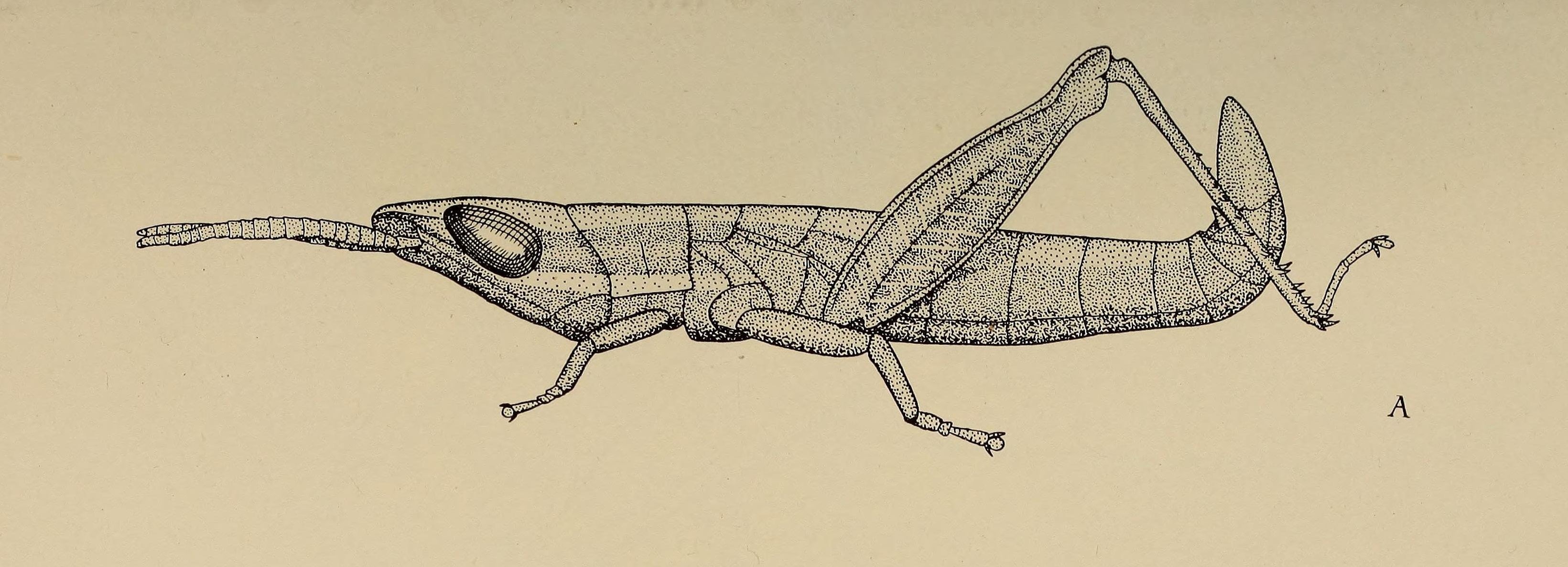 Title: Annals of the South African Museum = Annale van die Suid-Afrikaanse Museum Year: 1898 (1890s) Authors: South African Museum Subjects: Natural history Publisher: Cape Town : The Museum Text Appearing Before Image: Ann. S. Afr. Mus., Vol. XXXII. Plate XV Text Appearing After Image: '